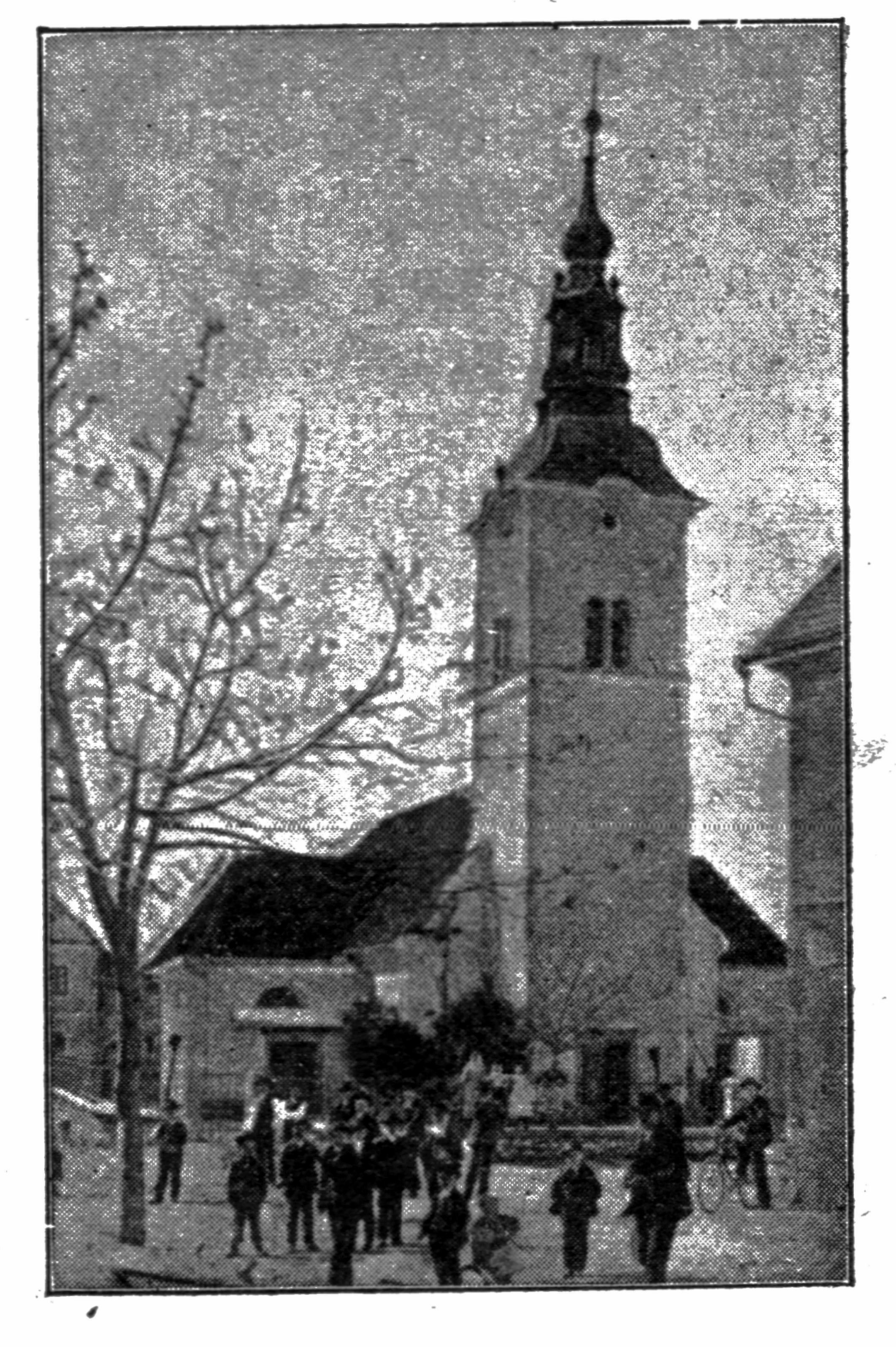 Marys church in Grahovo